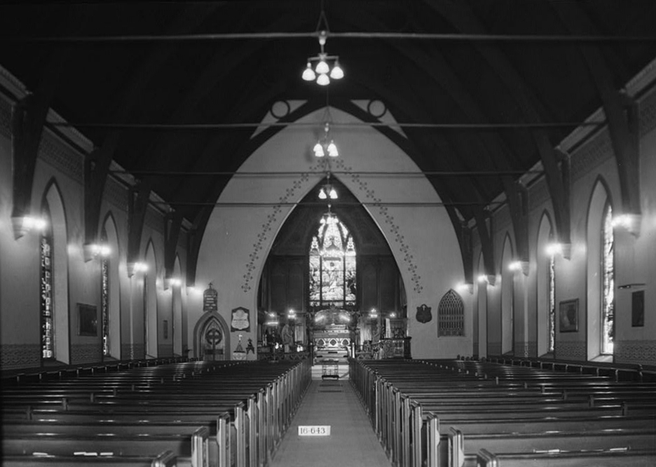 St. John's Episcopal Church, 113 Madison Avenue, Montgomery, Montgomery County, AL. VIEW (TOWARD ALTAR).